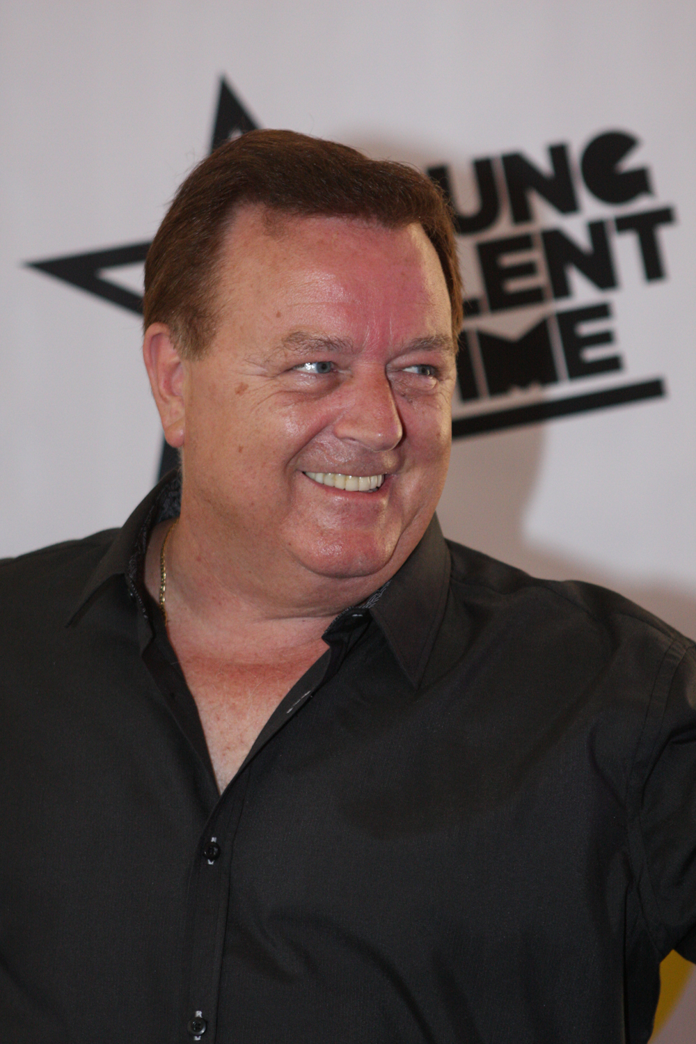 Young Talent Time Media Event At Luna Park Sydney Young Talent Time hits Australian television this Sunday night and we're fired up to watch it. The show is a revamp of the hit 80s talent show that helped make talent such as Dannii Minogue and Tina Arena household names. You'll be glad to hear that Tina is back as a judge on the new show, alongside Chucky Klapow and host Rob Mills. The show will feature a core group of ten young singers aged 16 and under who will perform a series of songs each weekend. Australian teens (and many of their parents) are tipped to religiously tune in and Ten thinks they have a real ratings winner on their hands, and we tend to agree. The show might just help find Australia's next answer to Justin Bieber, Selena Gomez, Cody Simpson and Miley Cyrus? There are no contestants in the first episode, as the show looks back on its long history and presents the new YTT Team. Four contestants will compete in the show from the second week. YTT includes a live band under Musical Director John Foreman, with live singing and performing. In a new and creative promo you see YTT youngsters performing 'Jumpstart' and its rather catchy stuff. The new YTT Team are: Georgia-May Davis (aged 16, Sydney) Adrien Nookadu (aged 15, Sydney) Lyndall Wennekes (aged 15, Sydney) Tia Gigliotti (aged 15, Sydney) Tyler Wilford (aged 14, Melbourne) Sean Emmett (aged 14, Sydney) Serena Suen (aged 13, Sydney) Michelle Mutyora (aged 13, Sydney) Nicholas Di Cecco (aged 12, Sydney) Aydan Calafiore (aged 11, Melbourne) Special thanks to Brooke and the team at Network Ten for helping things go so smooth for us. Young Talent Time premieres on Sunday January 22 at 6.30pm on Channel Ten. Websites Young Talent Time official website Network Ten Luna Park Sydney Eva Rinaldi Photography Flickr Eva Rinaldi Photography Music News Australia